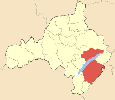 Locator map of Servion municipality (Δήμος Σερβίων) at Kozani perfecture, Greece.